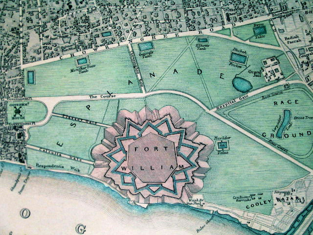 Fort William in its context, in an SDUK ("Society for the Diffusion of Useful Knowledge") map from 1844